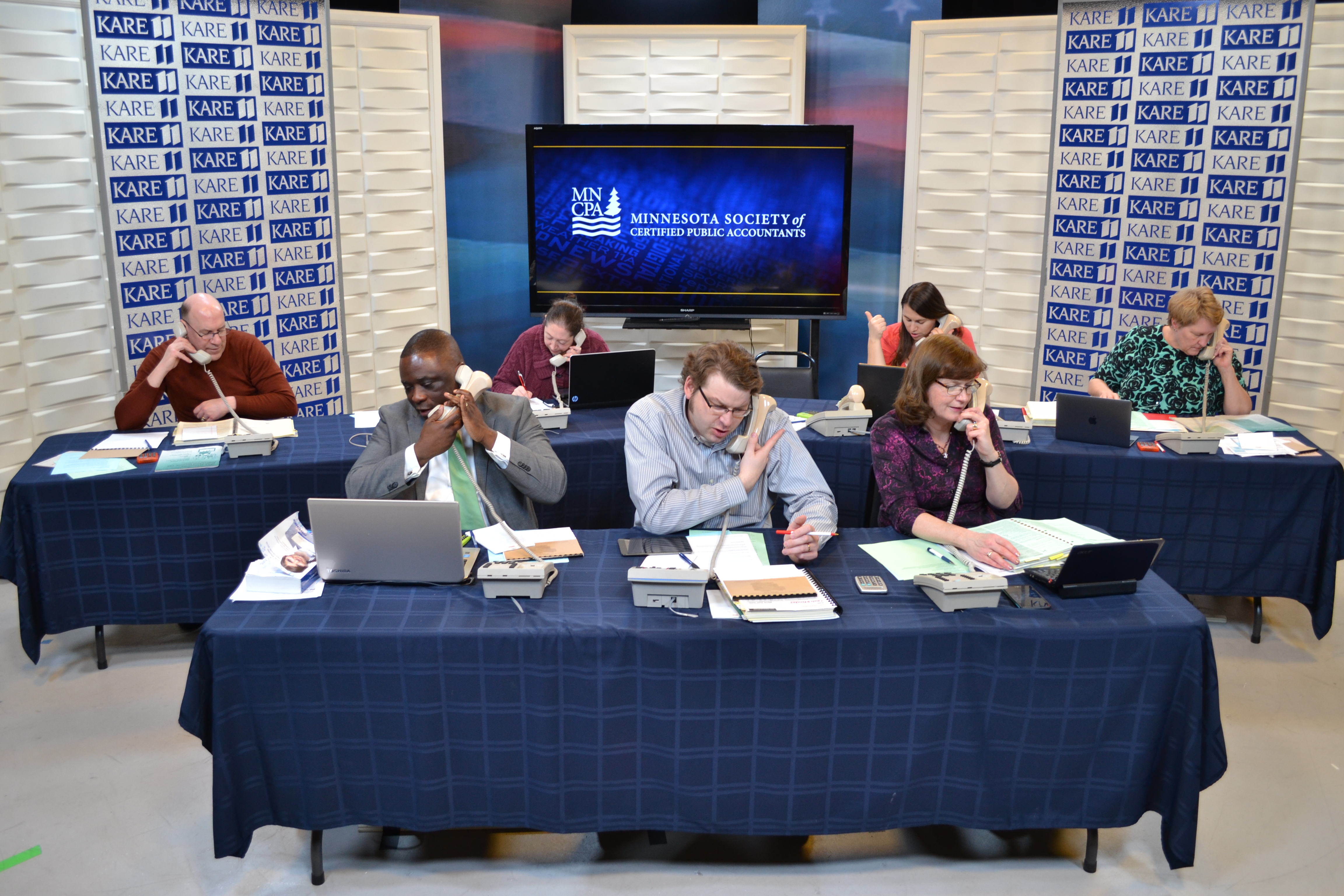 Volunteers field hundreds of calls during the MNCPA's annual Taxline event, hosted at KARE 11 studios.